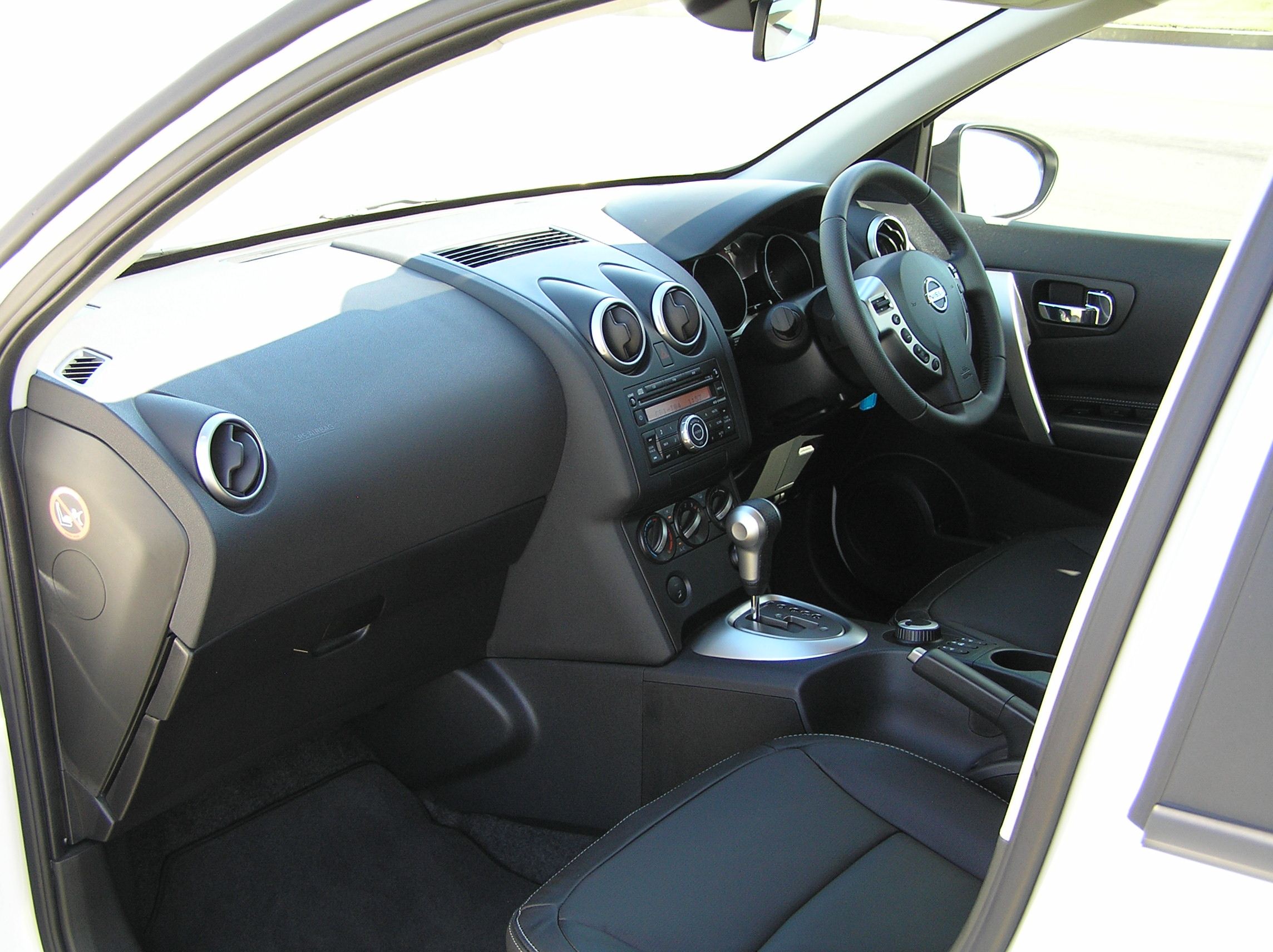 2008 Nissan Dualis (J10) Ti AWD wagon. Photographed in Queensland, Australia. Vehicle registration enquiry resultsJurisdictionQueenslandRegistration691LNLChassis codeSJNFBNJ10A1379484 Year of manufacture2008